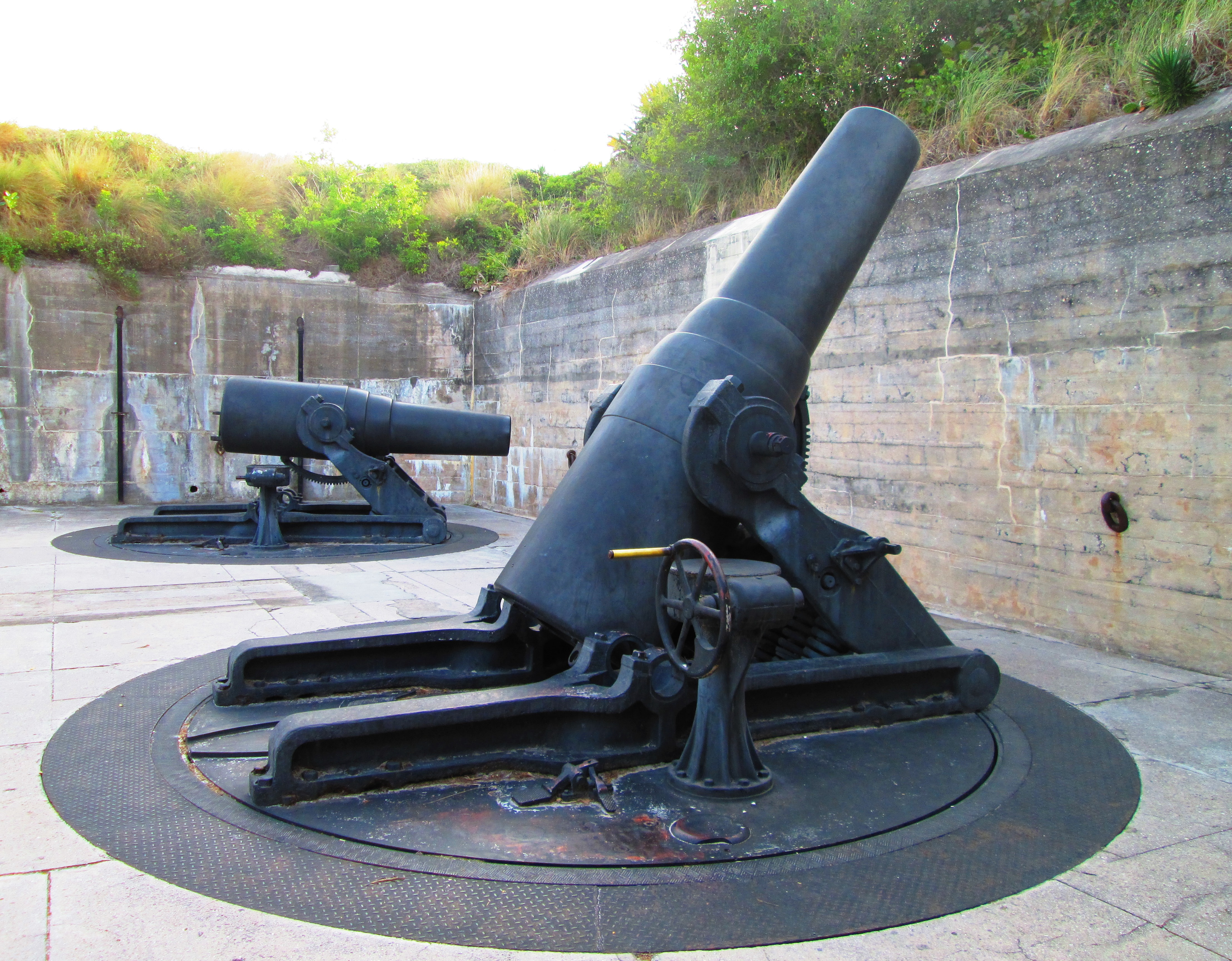 Two of the 12-inch steel coastal defense mortars of in Pit "A" of Battery Laidley at Fort De Soto Park. There were originally 8 of these guns, 4 in each pit; these are the two that remain in Pit "A". The M 1890-MI breech-loading and rifled mortars, which were built by Watervliet Arsenal of Watervliet, New York, had a maximum range of 1.25 miles at a 70 degreeelevation and 6.8 miles at 45-degrees. The guns required a crew of 12 to manually load the 800-, 824- or 1,046-pound projectiles, insert the 54 to 67 powder charge, and to aim the guns. Sightings were related from two observation posts to the two "data booths", from which the crew read the necessary elevations and azimuths. The four mortars remaining at Fort De Soto are the last four of their type remaining in North America. (Source: Fort De Soto Historic Guide)